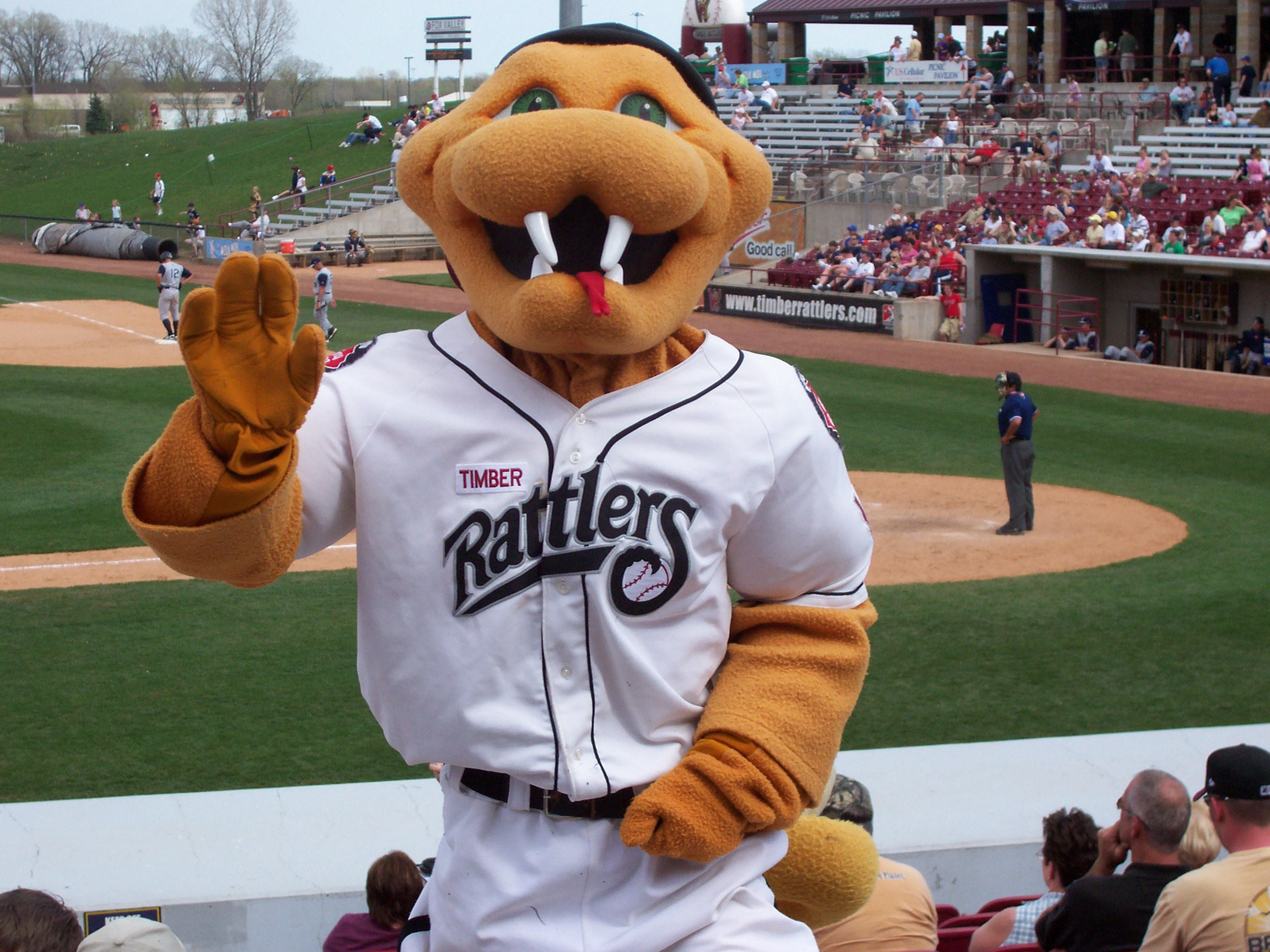 The mascot named "Fang" for the Wisconsin Timber Rattlers minor league baseball team in the Midwest League.